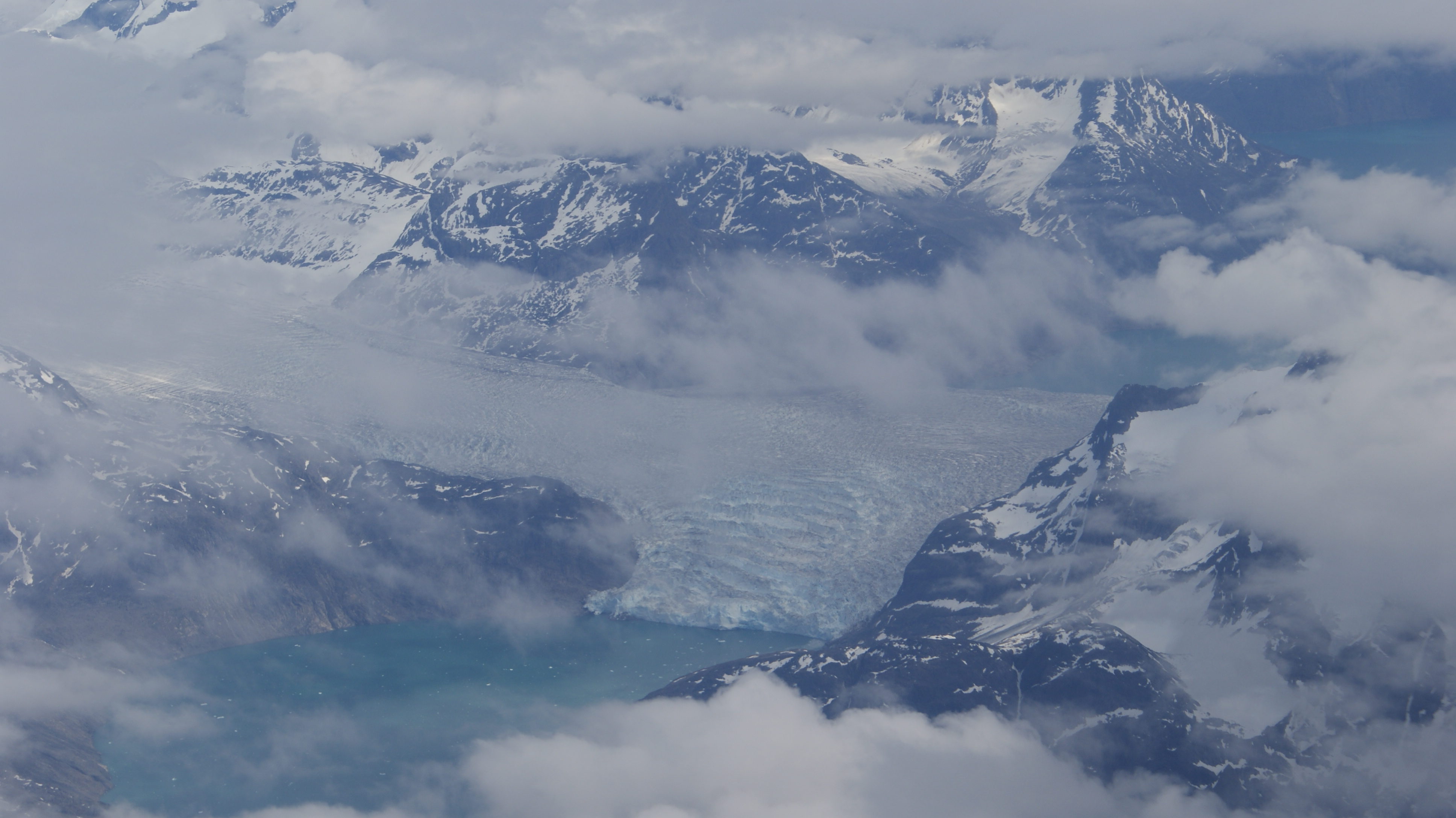 Aerial view of the Sermitsiaq glacier in western Greenland flowing into two fjords at the same time: Kangaamiut Kangerluarsuat in the north (left) and Kangerlussuatsiaq Fjord in the south (right). Photographed from the Air Greenland de Havilland Canada Dash-7 ""Sululik"" during the Sisimiut-Nuuk flight.